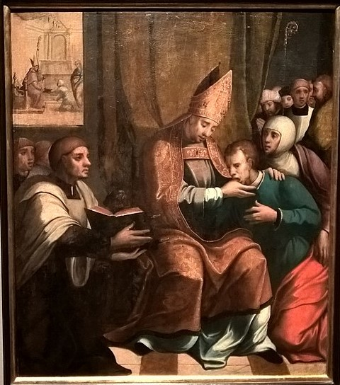 S. Brás Miracle, panel from the ancient Campanário´s S. Brás Church Retable, circa 1545-50, of the portuguese painter Diogo de Contreiras. Today at the Museu de Arte Sacra do Funchal, Madeira Island.